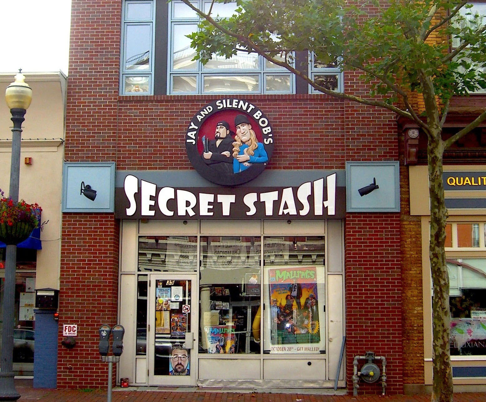 Jay and Silent Bob's Secret Stash, a comic book store in Red Bank, New Jersey that is owned by filmmaker Kevin Smith as seen on the morning of July 9, 2012. This photo was created by Luigi Novi. It is not in the public domain, and use of this file outside of the licensing terms is a copyright violation.